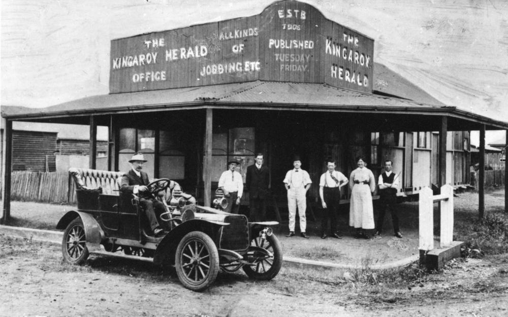 Offices of the Kingaroy Herald, established in 1906 Mr Archibald Blue, the Kingaroy Heralds' foundation manager is seated in his French Darracq automobile. Other staff standing from left: Charles Hill; T. Thaetcher; C. Galloway; B. Neale; Maggie Wittkop, later Mrs. W. H. Pointon and W. Lambert. (Description supplied with photograph.).